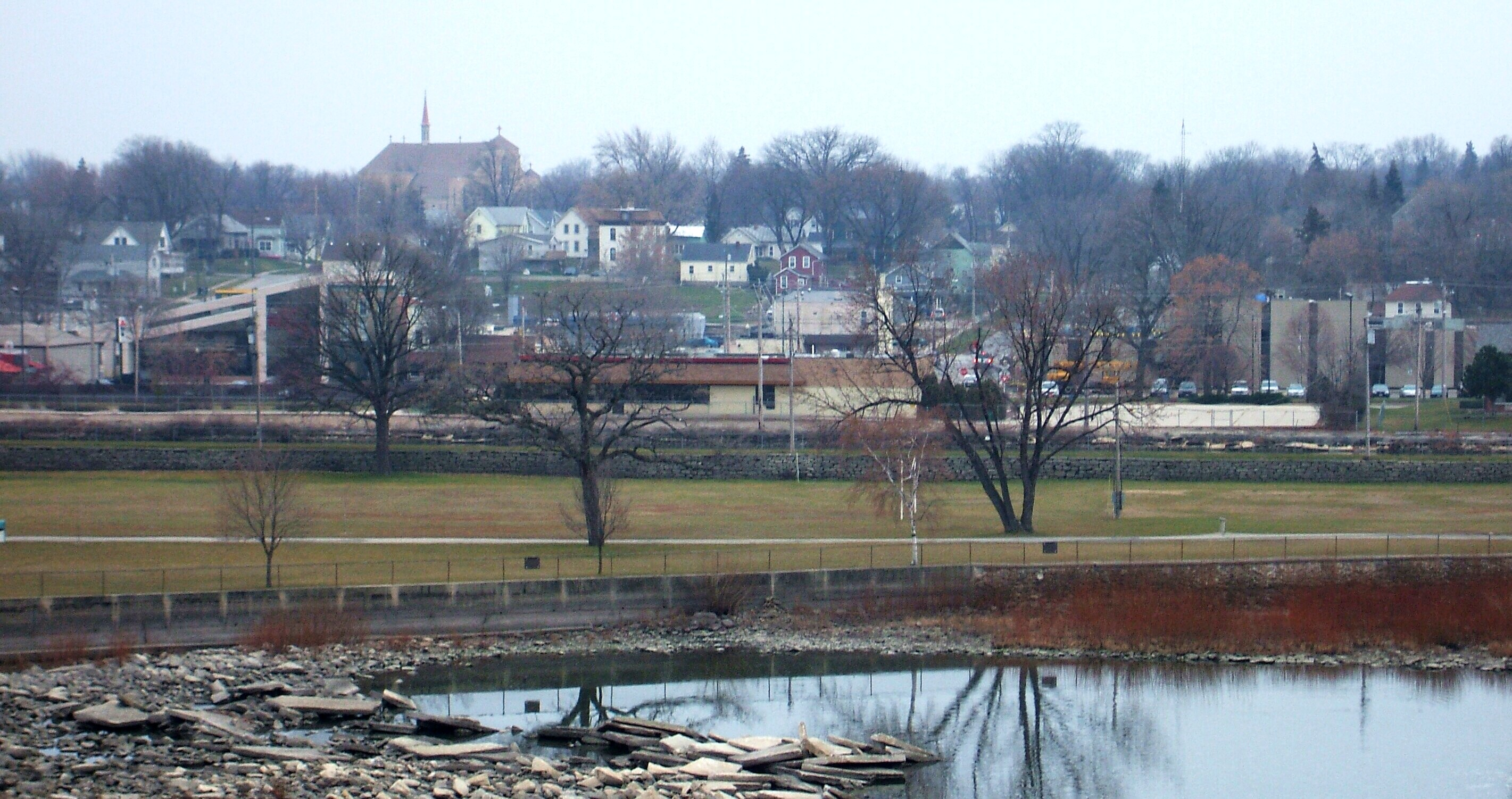 The south side of Kaukauna, Wisconsin. Taken by myself on November 25, 2006, and released into the public domain.